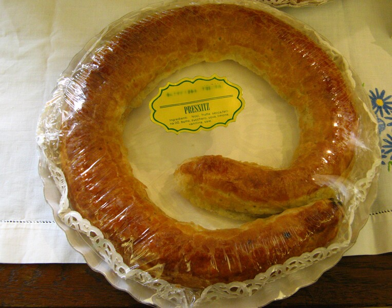 Presnitz, typical cake of Trieste